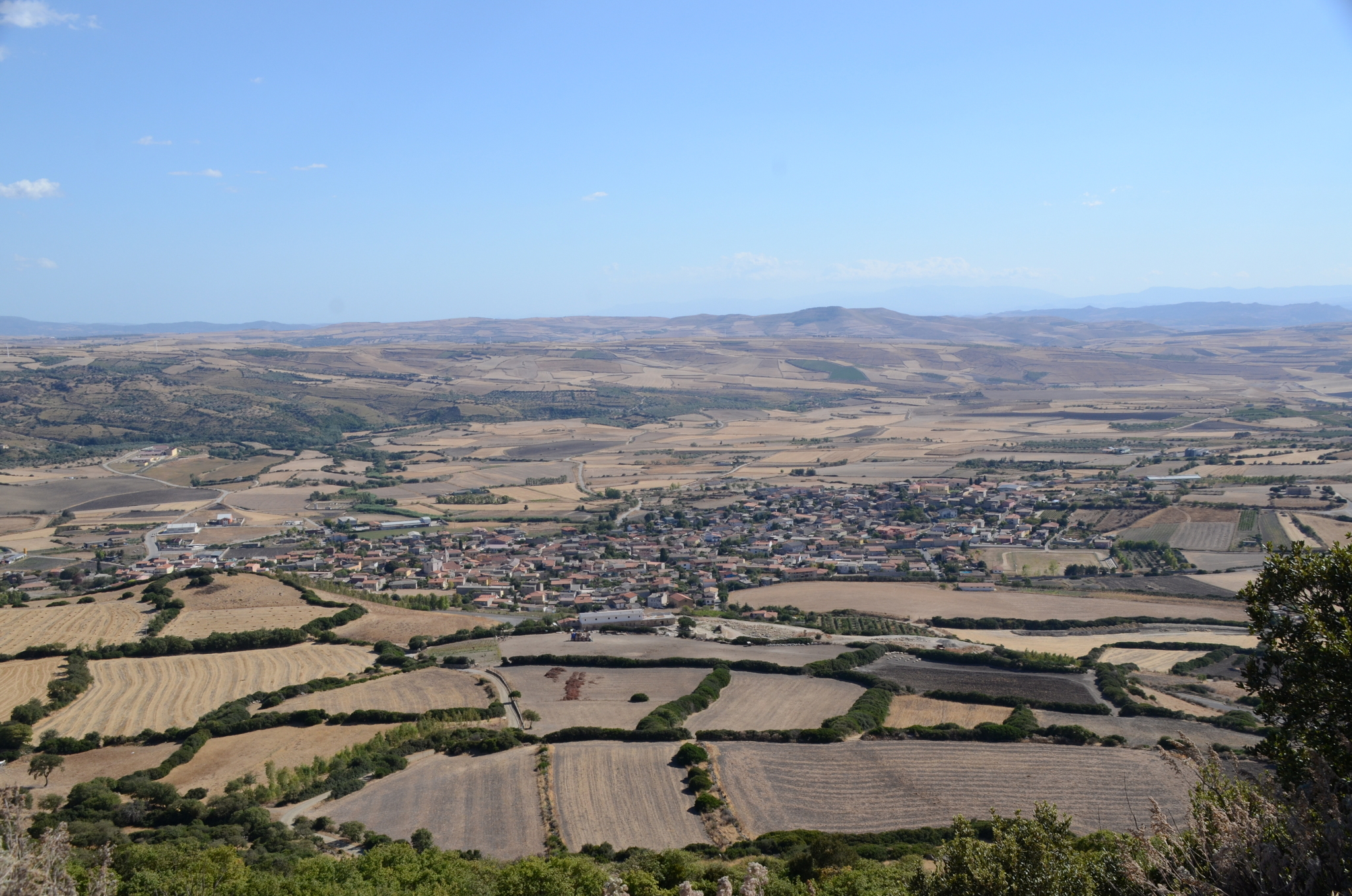 vista sulla pinaura dalla giara di Serri